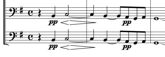 Symphony No. 2, composed by Sergei Rachmaninof in 1906-07. Movement 1.